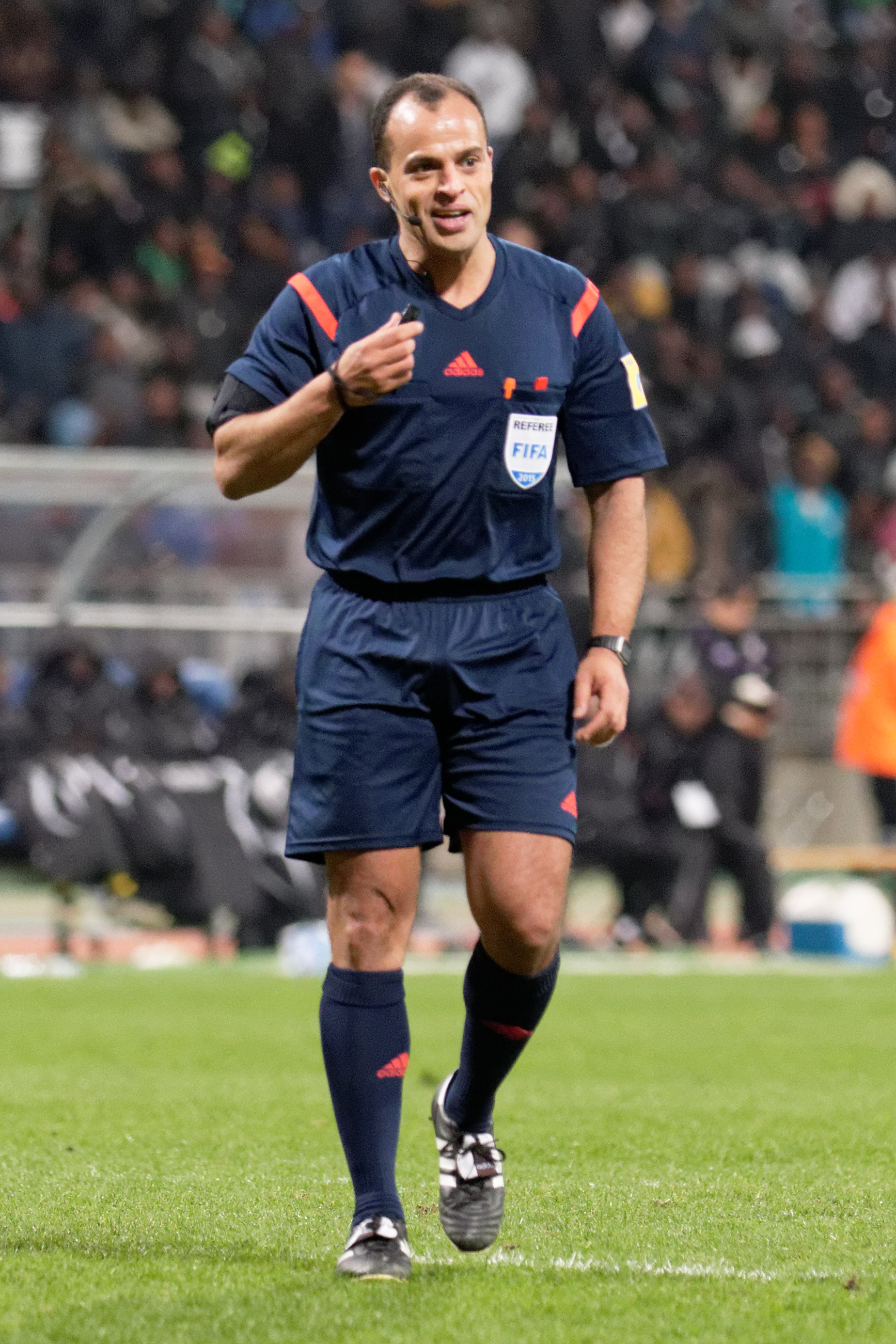 Mali vs Ghana, exhibition game at Paris, 31st March 2015.